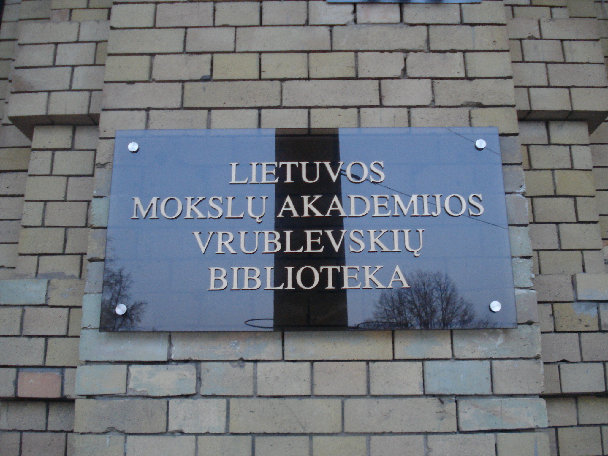 The new sign of the Library of the Lithuanian Academy of Sciences